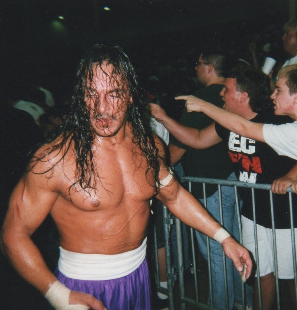 A photograph of Sabu taken at this show , October 4, 1998.